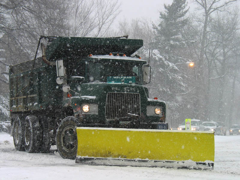 Snowplow in Washington, DC, photographed April 2003. Uploaded by photographer.